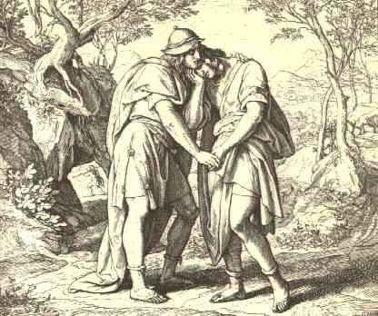 "Jonathan Lovingly Taketh His Leave of David". Woodcut for "Die Bibel in Bildern", 1860.